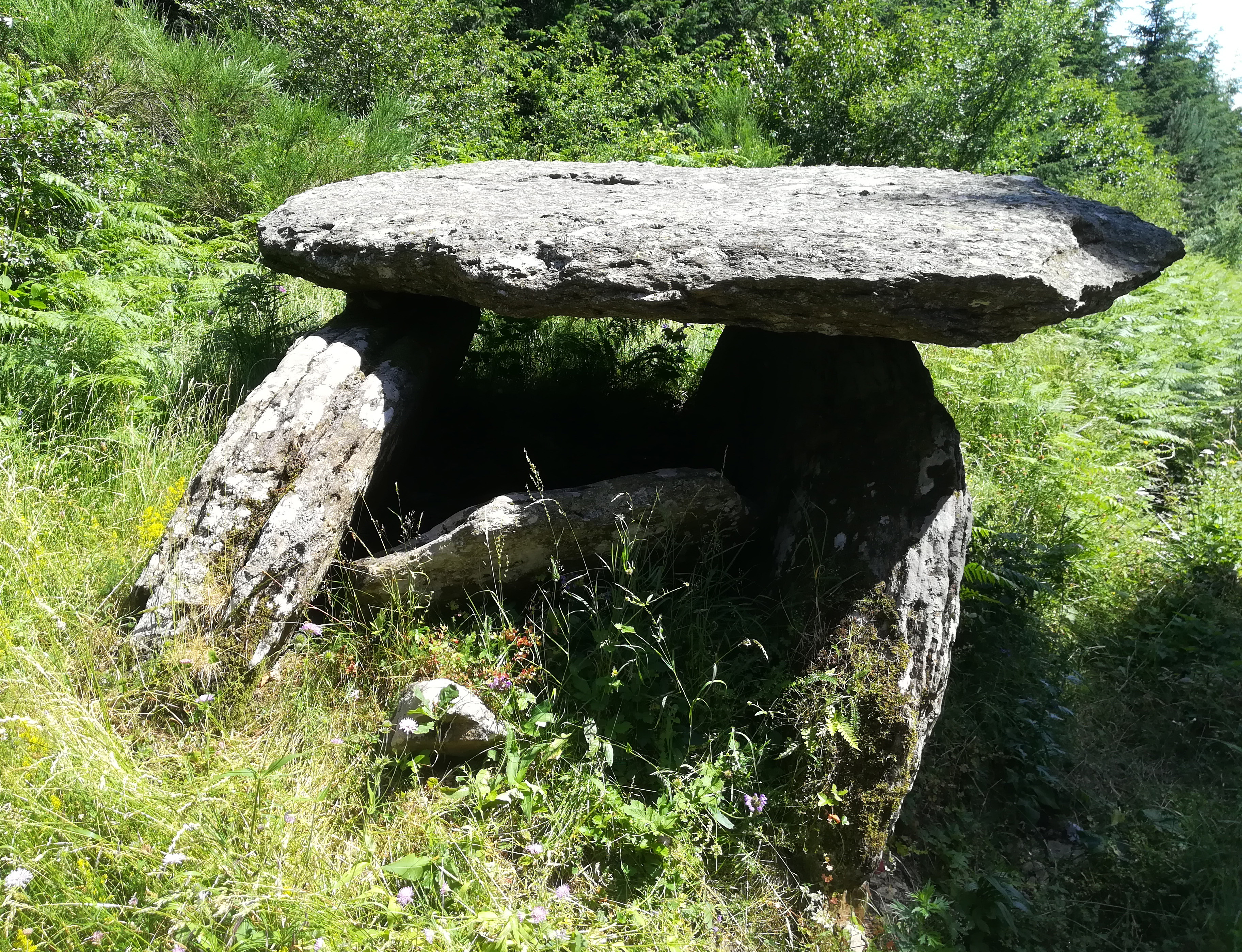 A dolmen classed as historical monument and easy to reach. It stands next to the road that leads from Labastide-Rouairoux to the Gante.